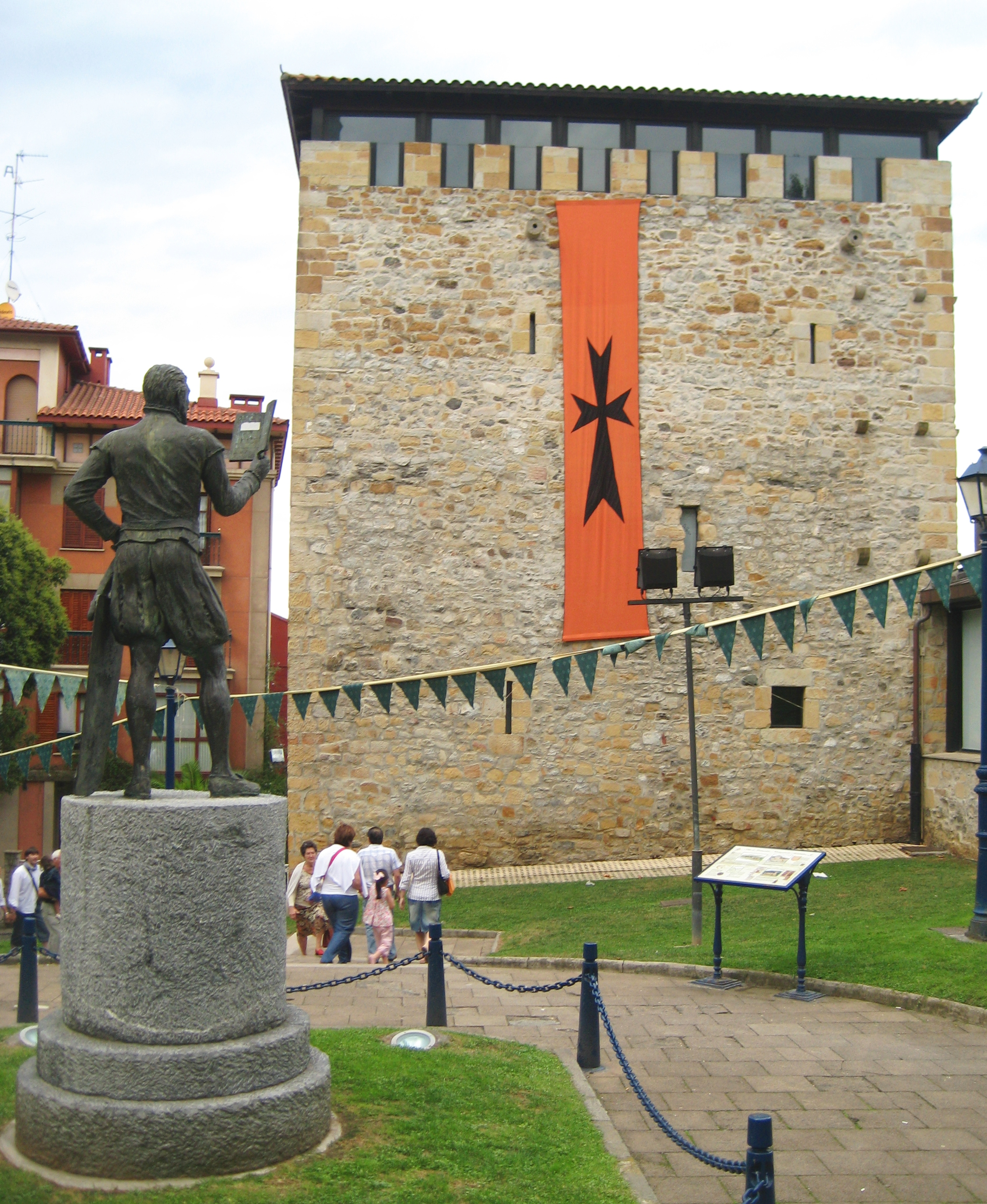 Monument to Lope Garcia de Salazar (statue by Lourdes Umerez, 2001) and Tower House of Salazar, in Portugalete, Biscay